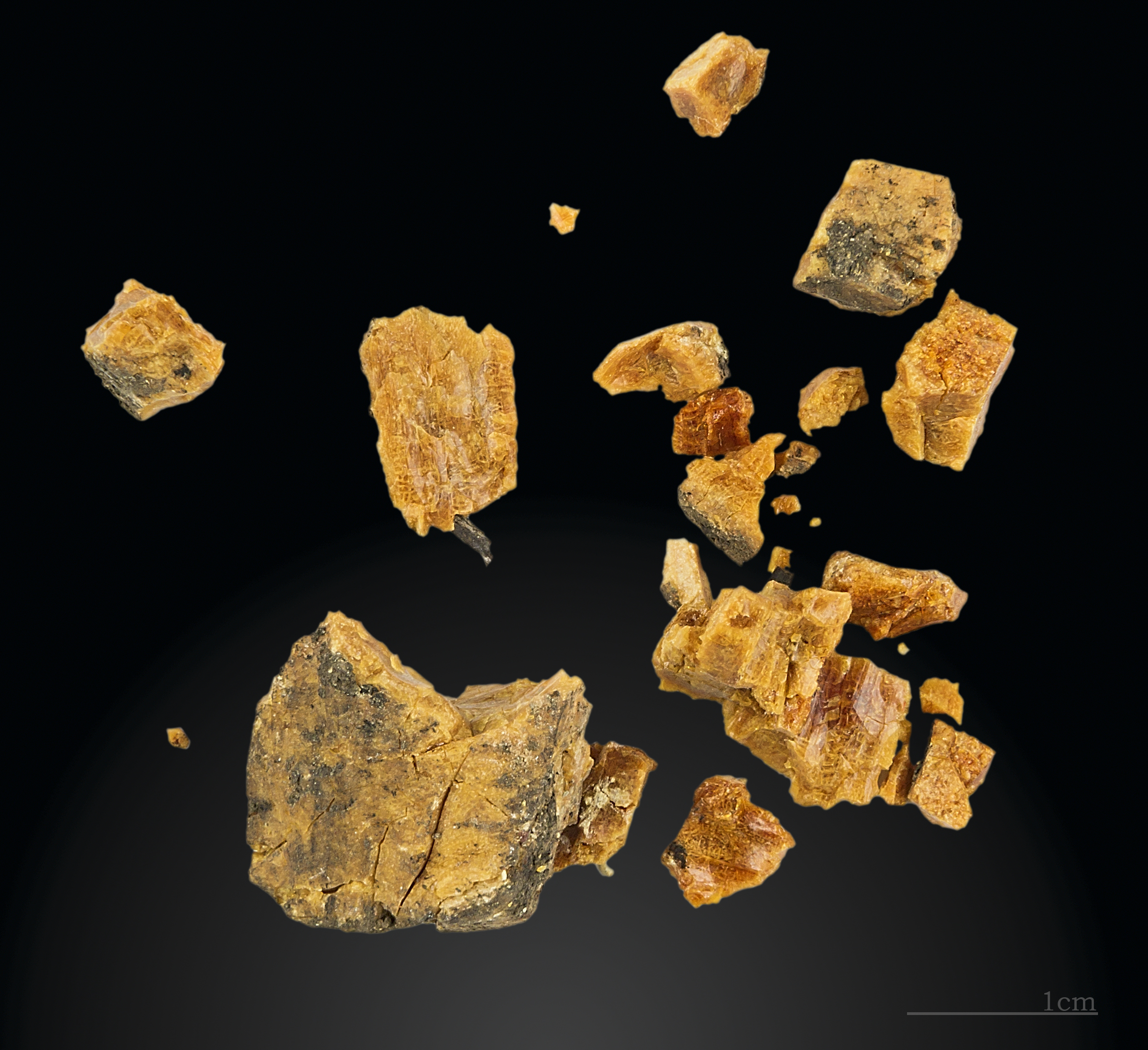 Amber from San Vicente de la Barquera (Cantabrian Coast). Solutrean layer (22 000 to 17 000 before present) of the Altamira cave. Excavations: Hugo Obermaier, Henri Breuil, Henri Bégouën 1925.